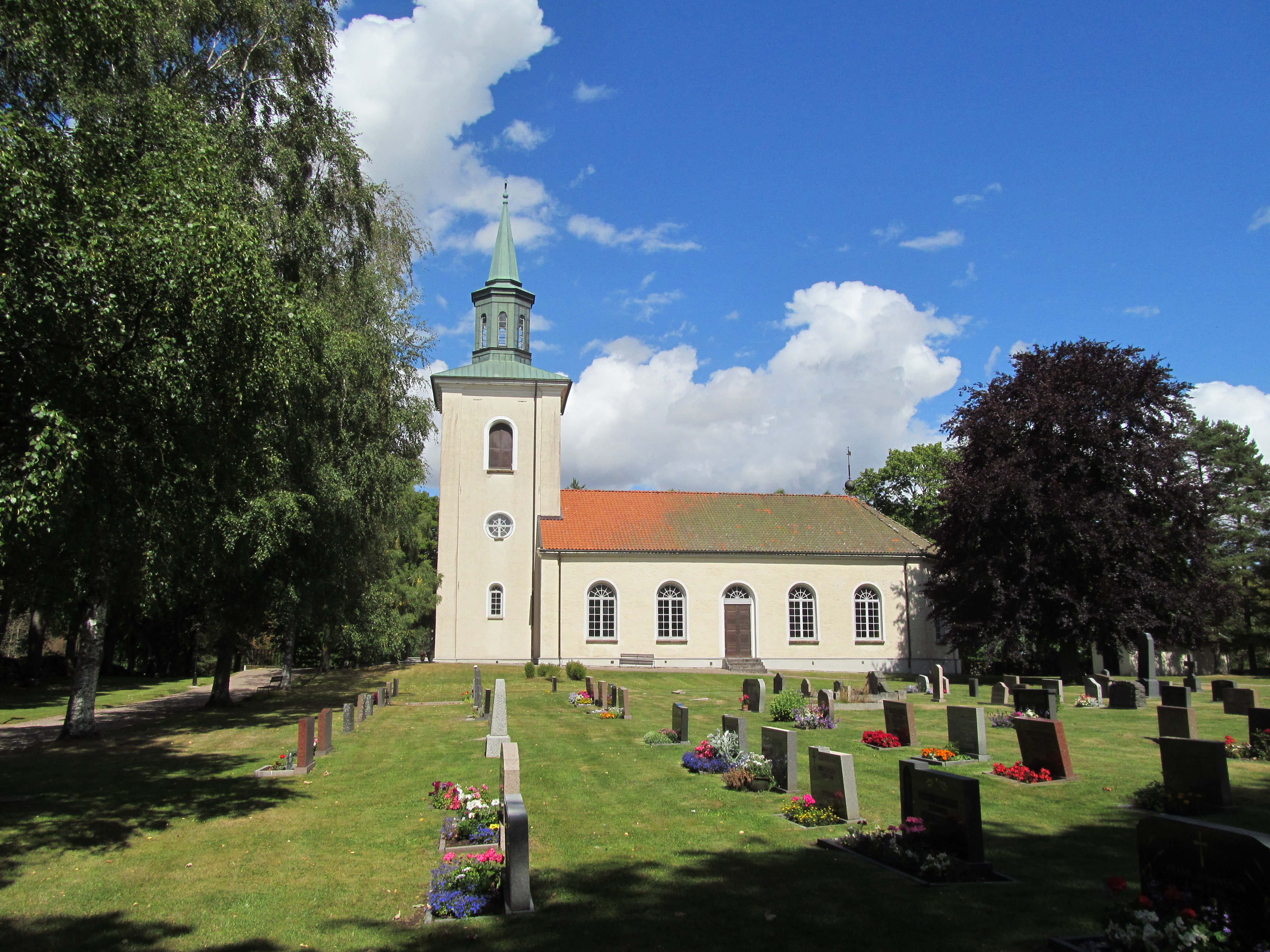 Lekåsa church in Lekåsa Parish, Essunga Municipality, Barne hundred, the Diocese of Skara, Västergötland, Västra Götaland County, Sweden.